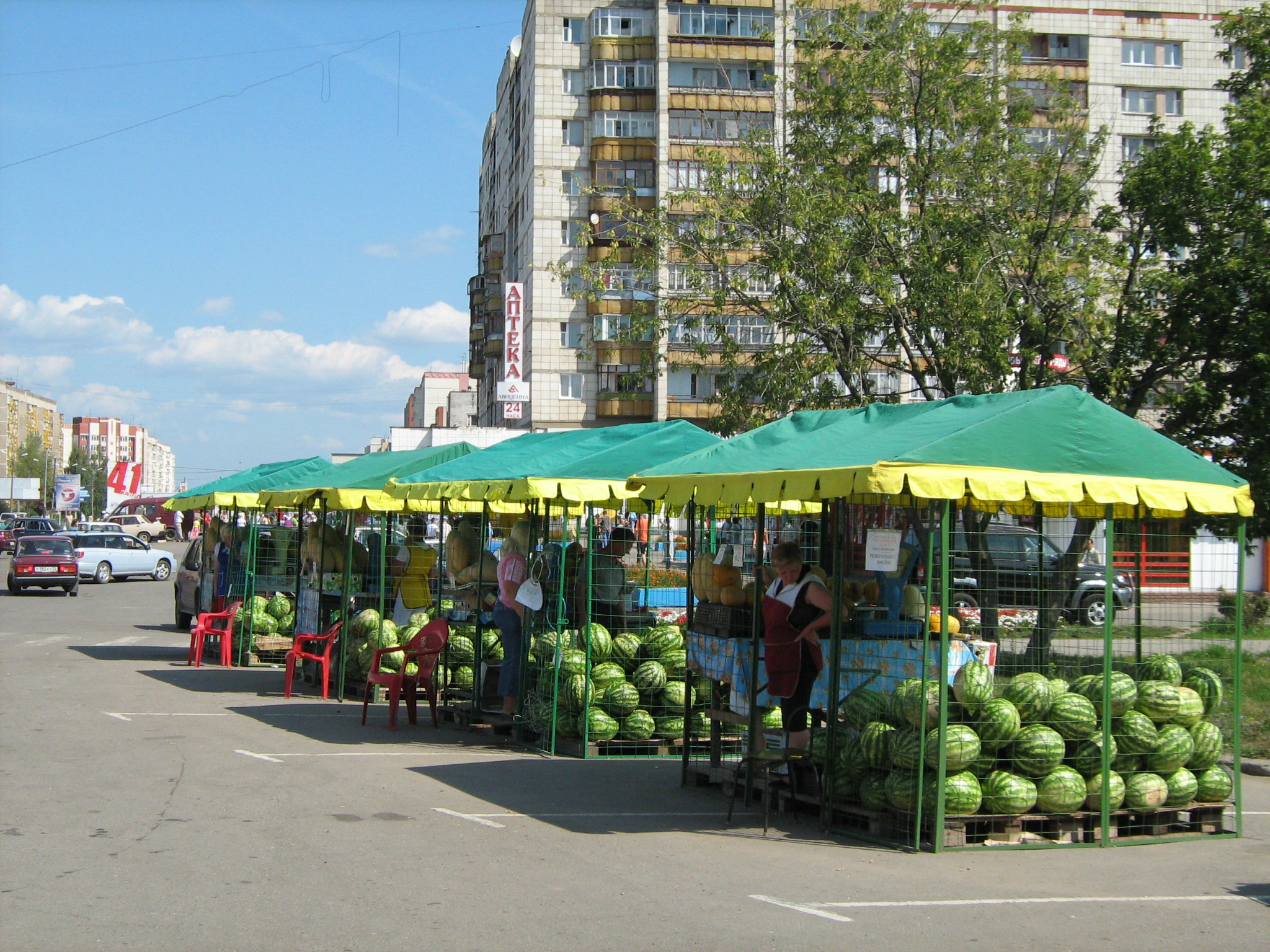 Watermelon vendors in Kstovo's Lenin Square. The fruit are stored in cages, which are locked for the night.